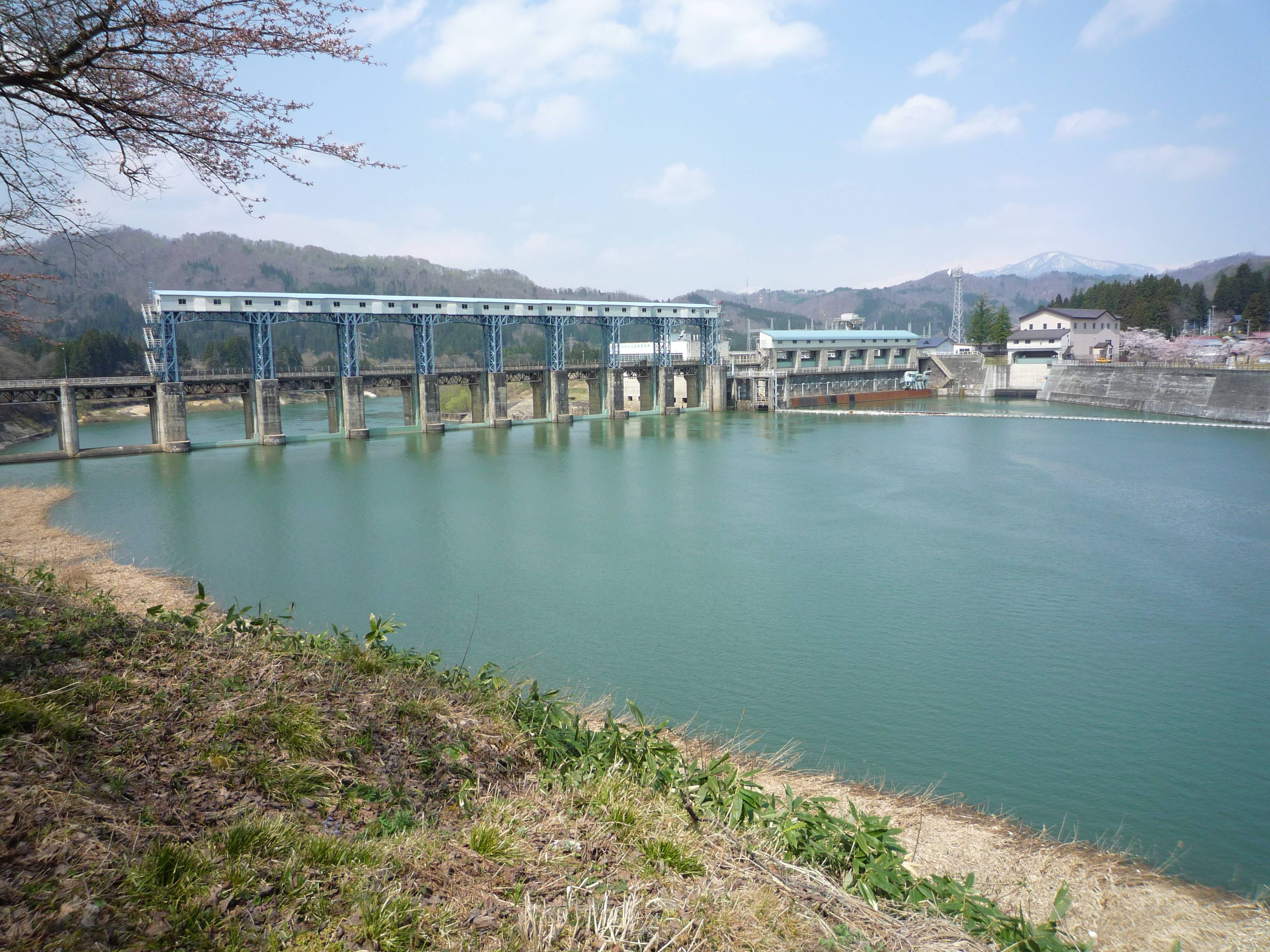 Kaminojiri Dam.